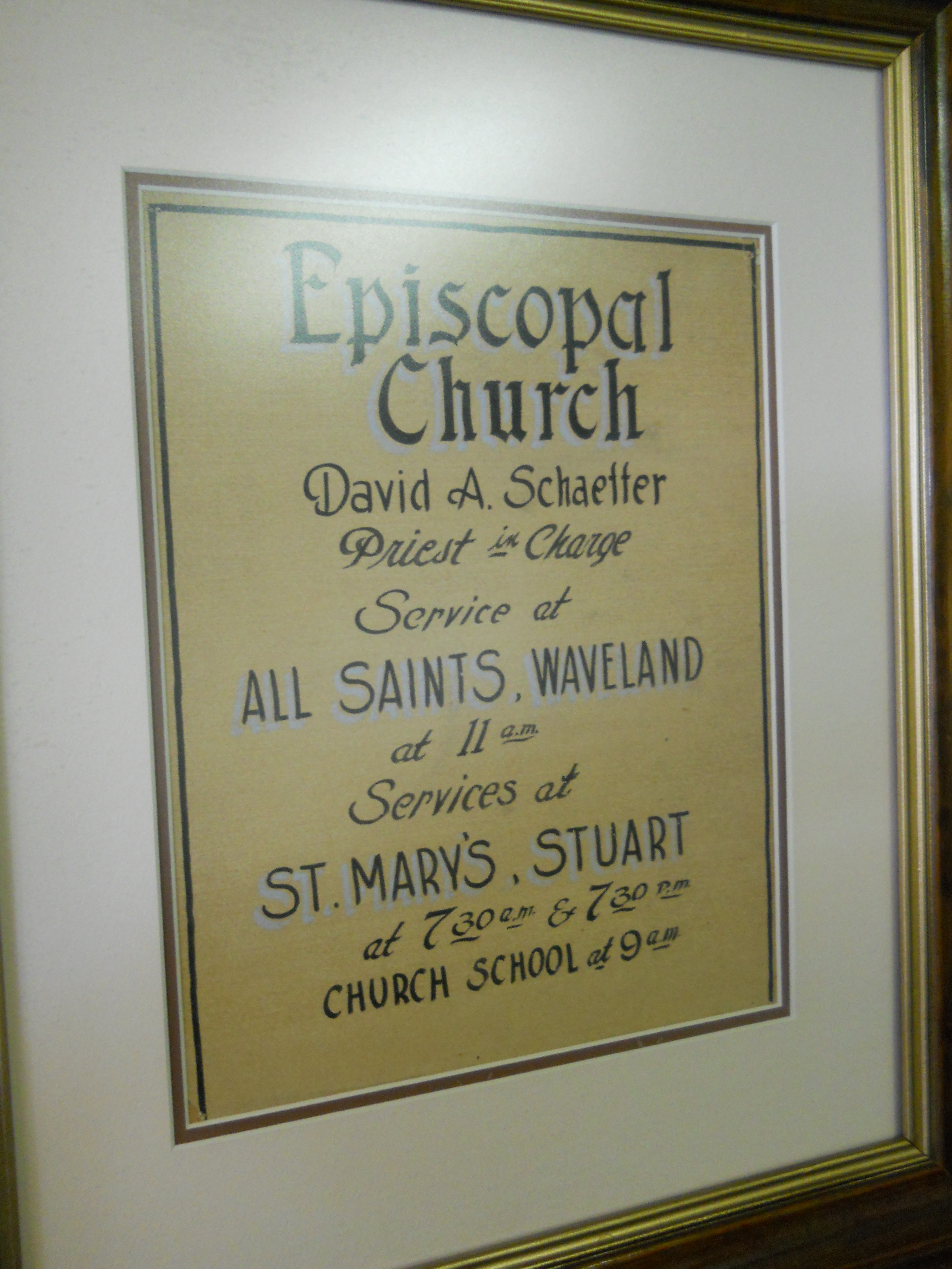 All Saints Episcopal Church, Waveland, Jensen Beach, Florida: Poster from the 1930s advertising services